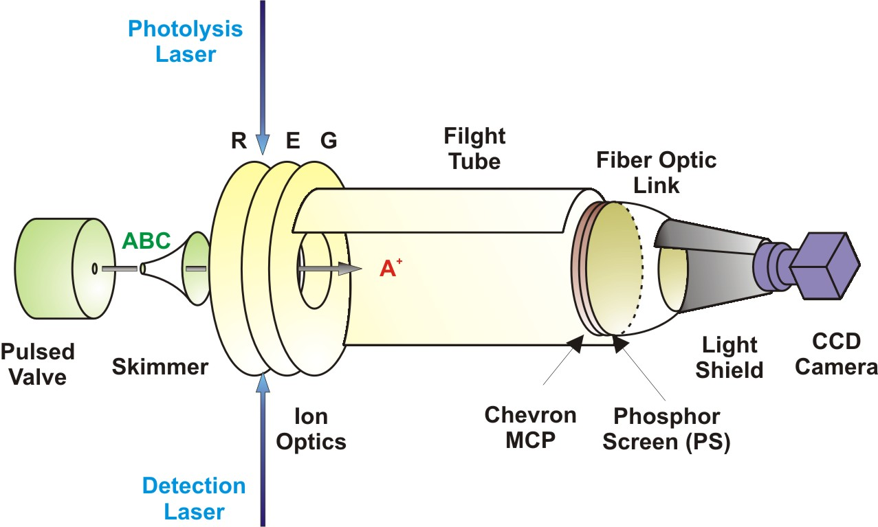 Schematics of the velocity map imaging (VMI) setup